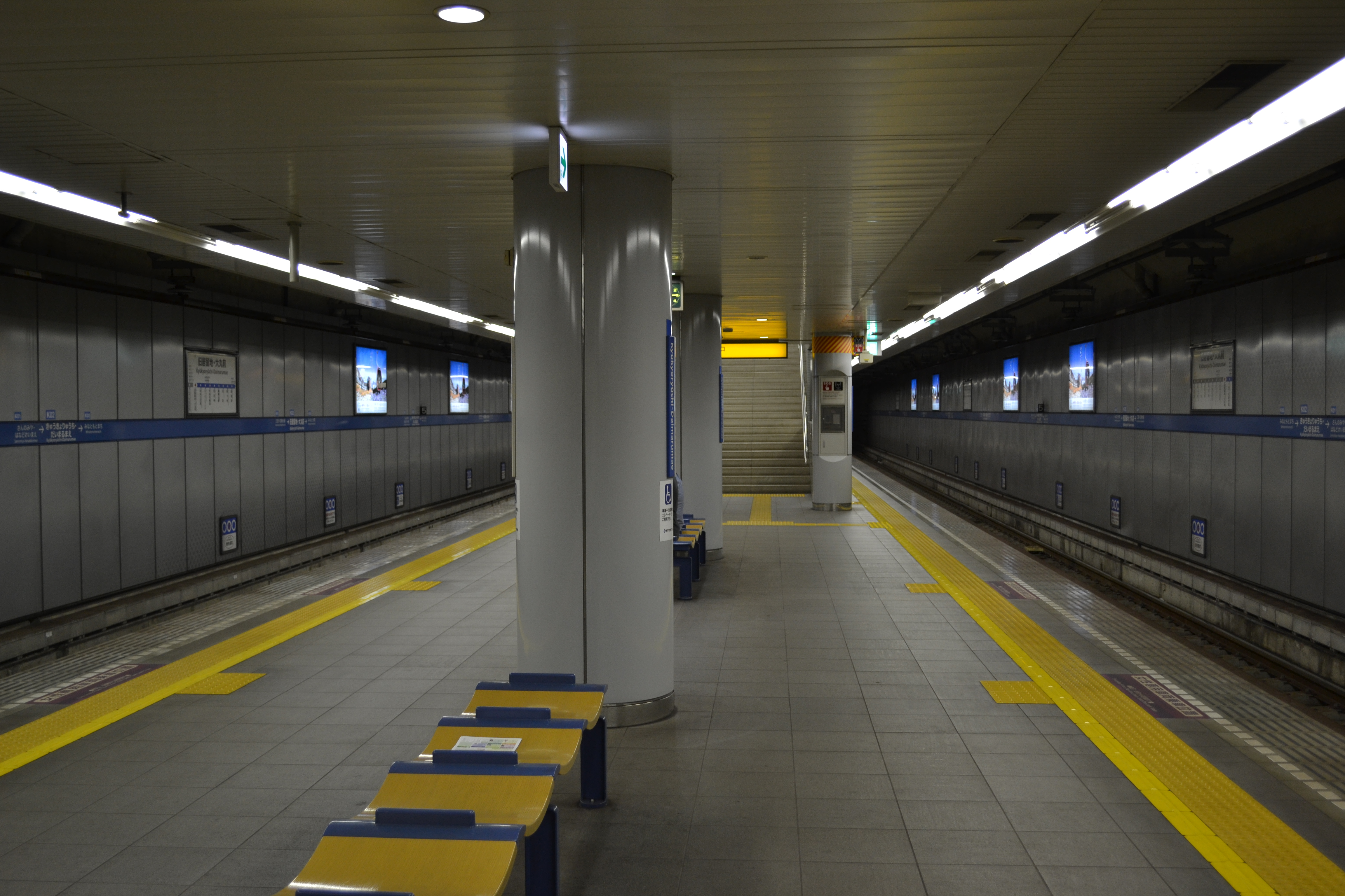 Kyūkyoryūchi-Daimarumae Station